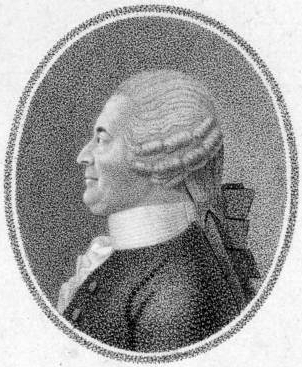 Austrian composer Georg Reutter the Younger (1708-1772). Stipple engraving after an ink drawing by A. Ecker.